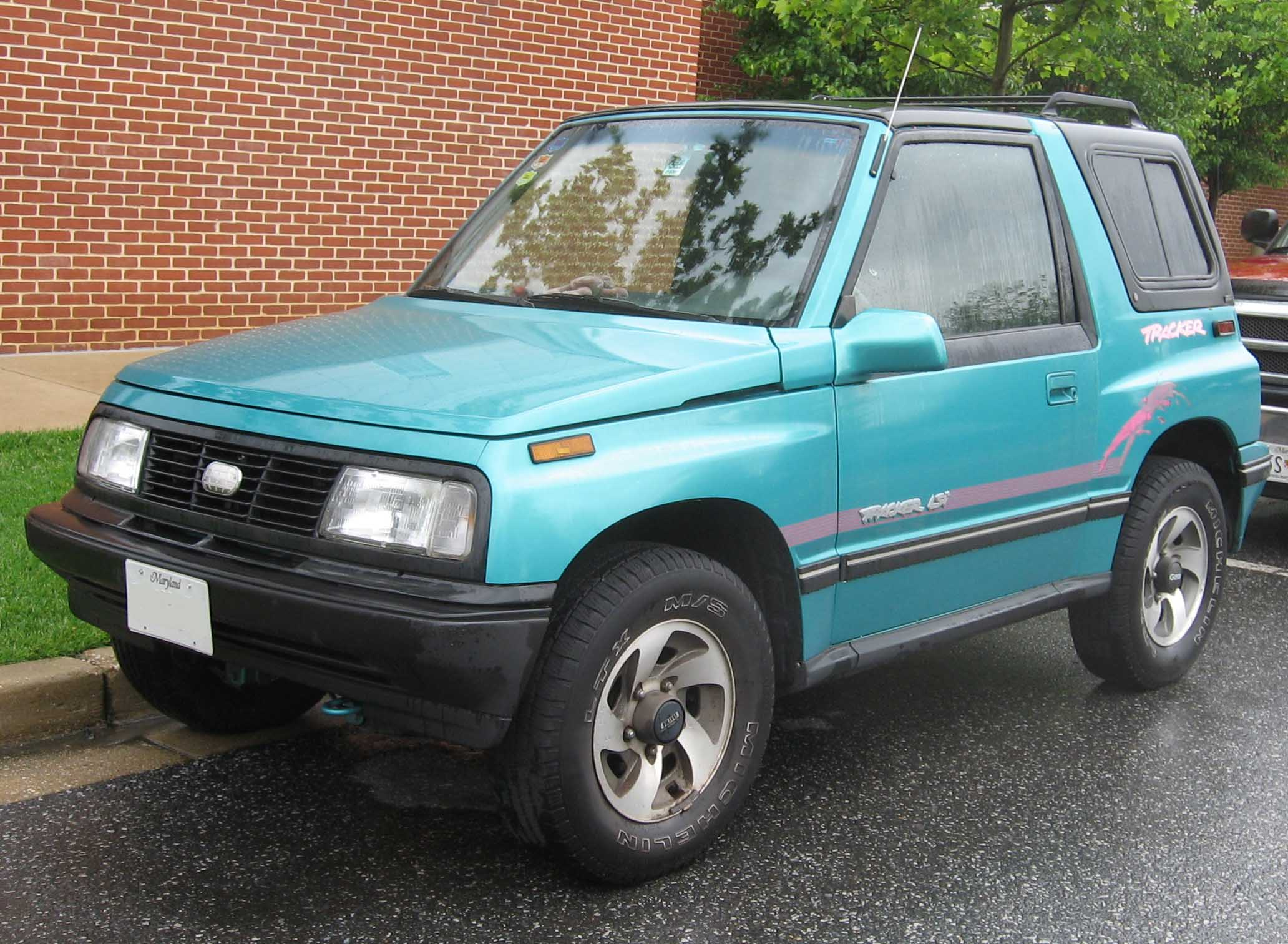 Geo Tracker photographed in College Park, Maryland, USA.